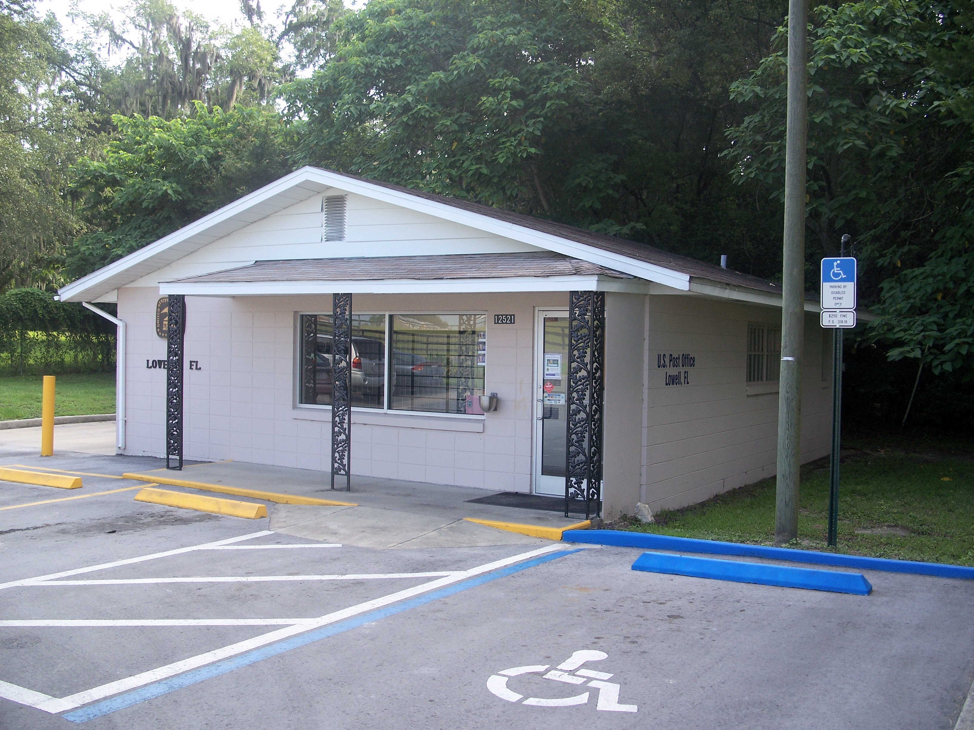 Lowell, Florida: Local post office.